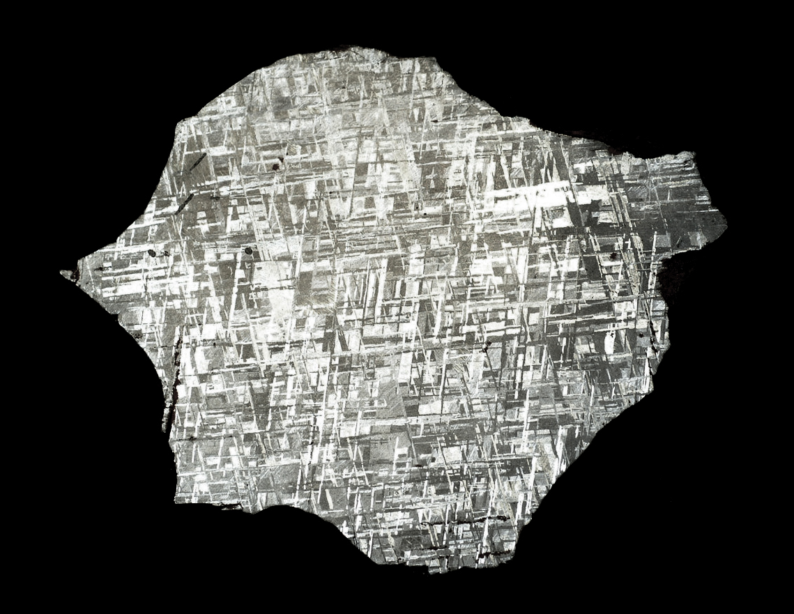 Polished slice of a Gibeon meteorite from Namibia. Widmannstäten texture.